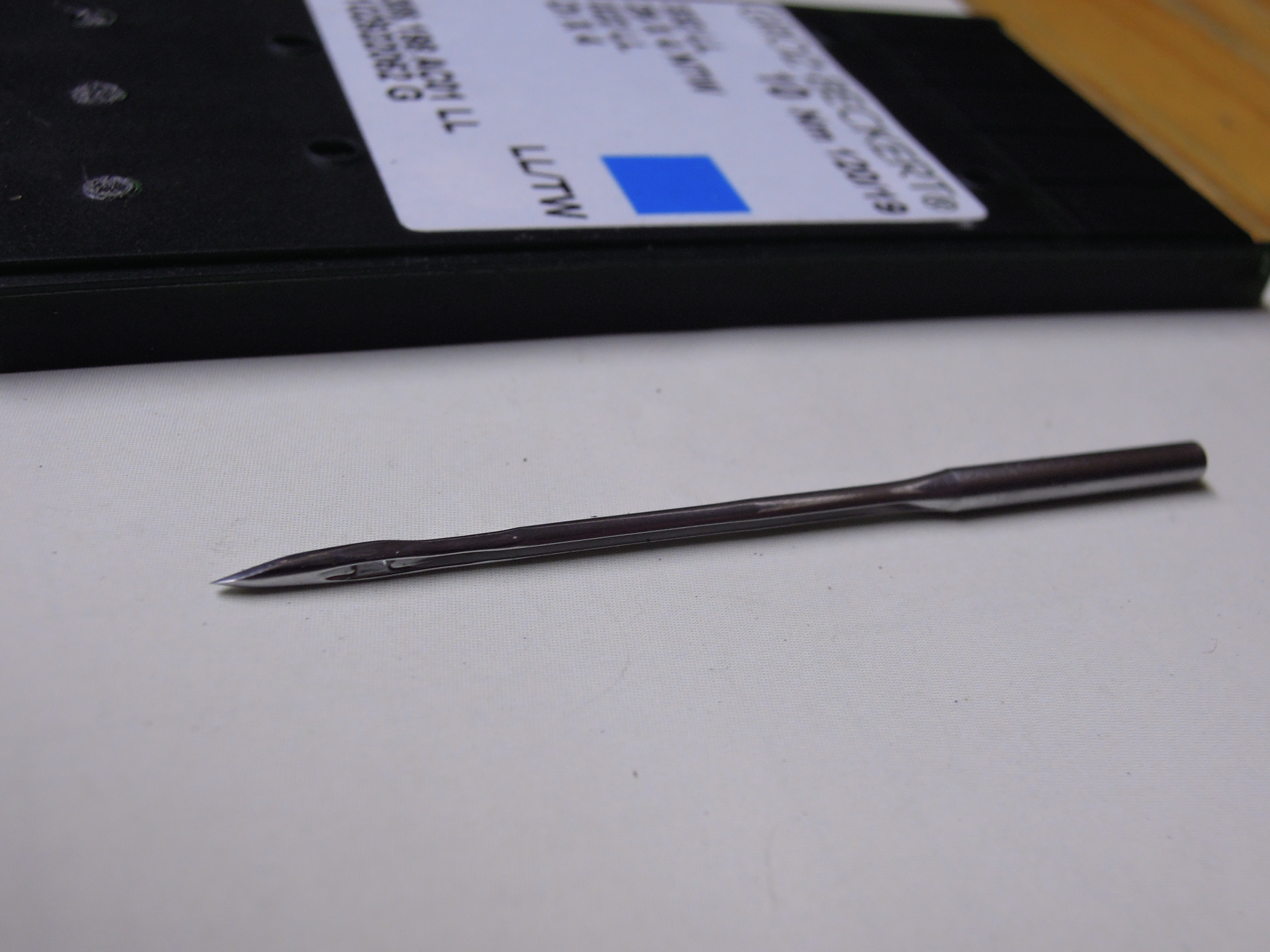 Sewing machine needle